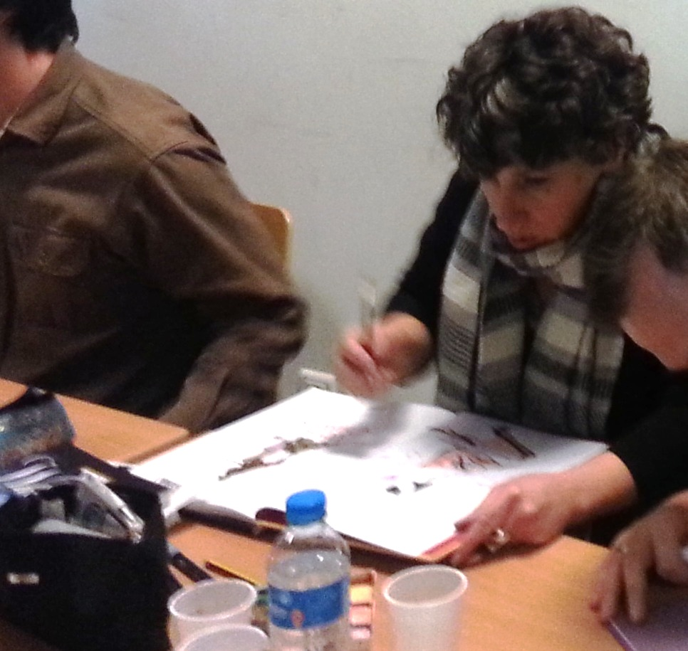 Virginie Augustin signing a copy of Voyage aux ombres at Buc Comics Festival 2012.